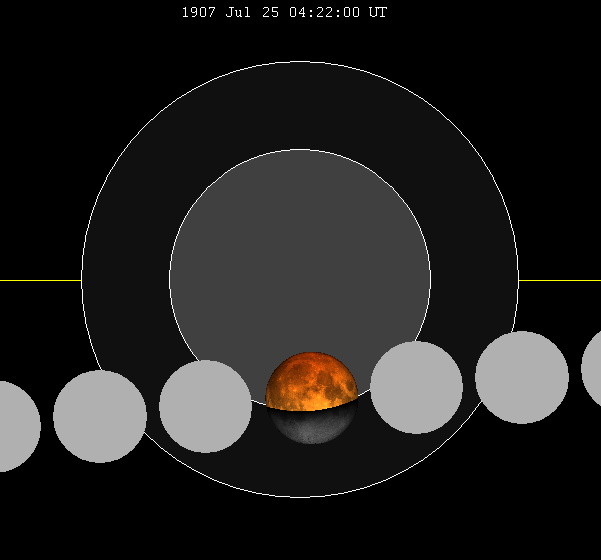 =lunar eclipse chart of moon's path through the earth's shadow. thumb